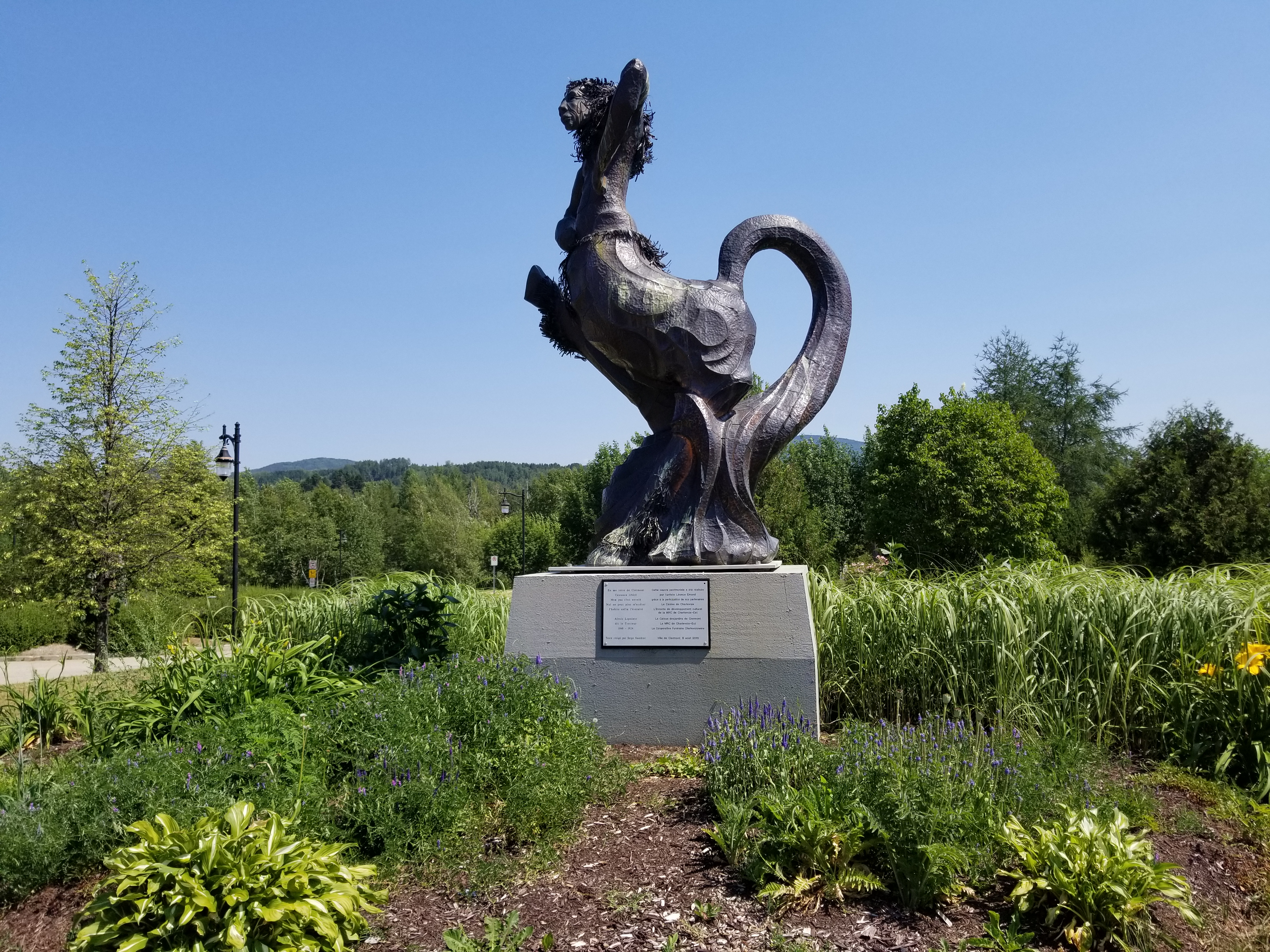 Alexis Lapointe (1860-1924) of Clermont, QC, was known for being one of the greatest riders of his time.